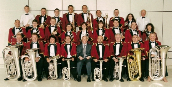 Photo of my band